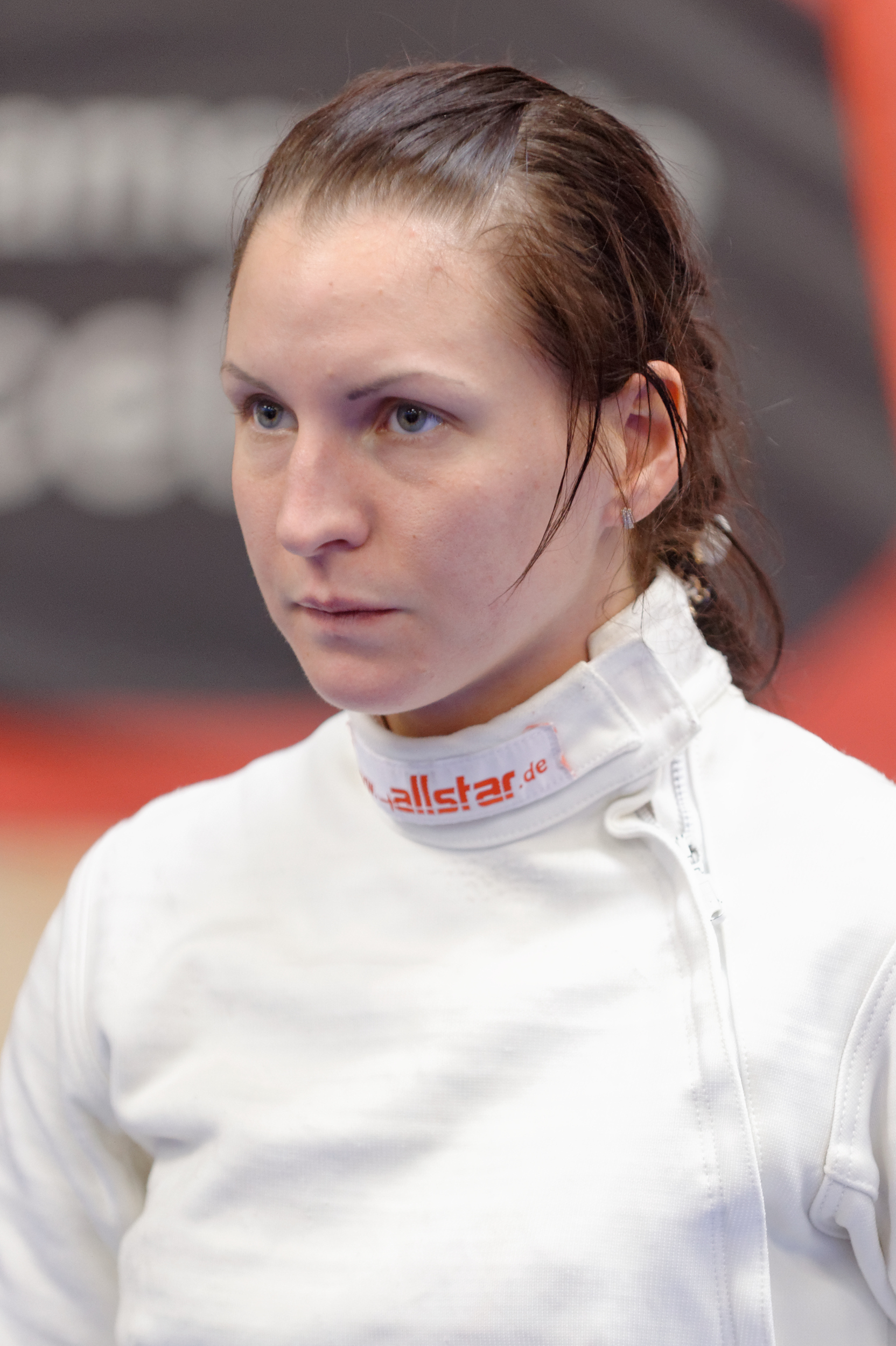 Ukraine's Anfisa Pochkalova during the team event of the 2015 Trofeu International Ciutat de Barcelona, a women's épée World Cup competition.